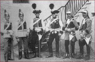 Soldiers of 5th Dragoon regiment in historical uniforms